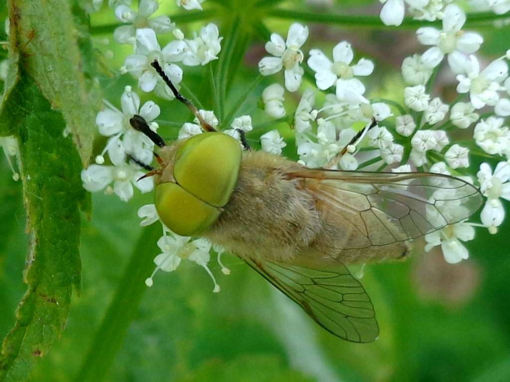 Atylotus fulvus on Aegopodium podagraria. Found in Bērzi village near Bauska city, Latvia.